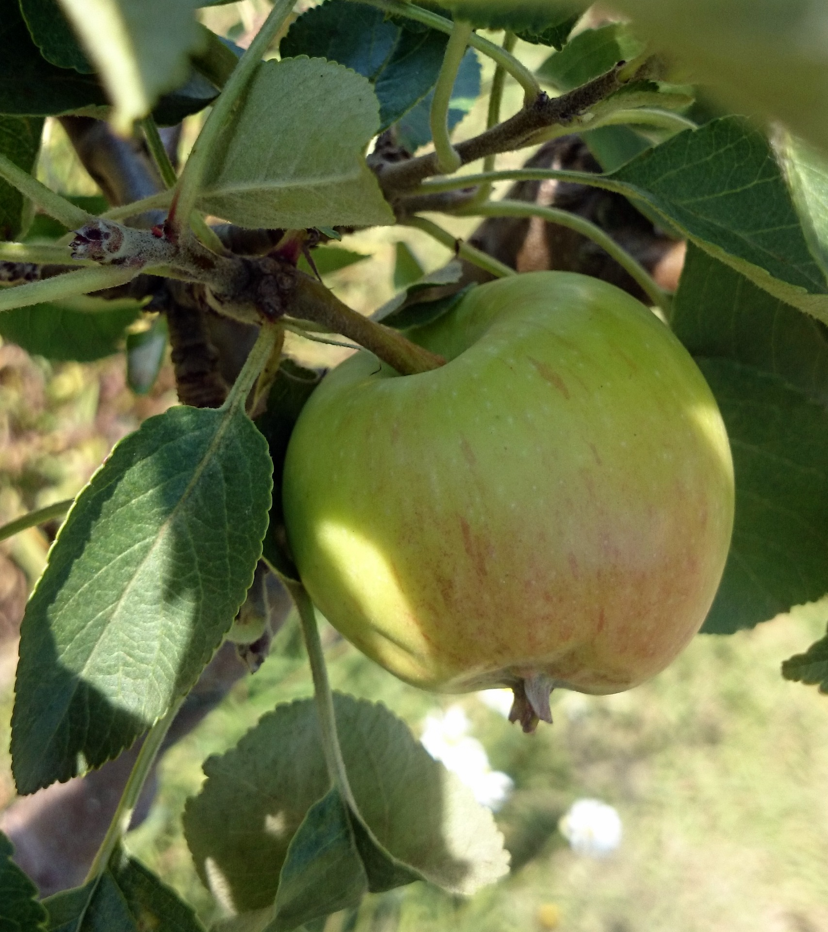 Berlin in late summer